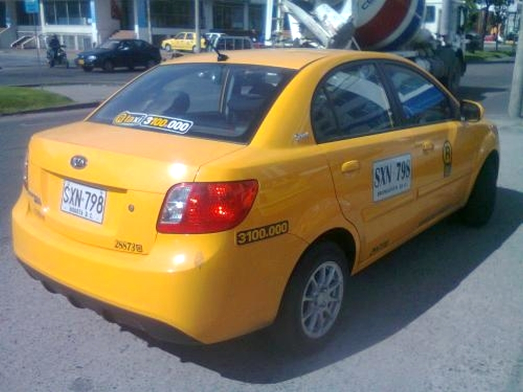 Kia still use the name plate "SEPHIA" in Latin America, it is sold especially for Taxi use.